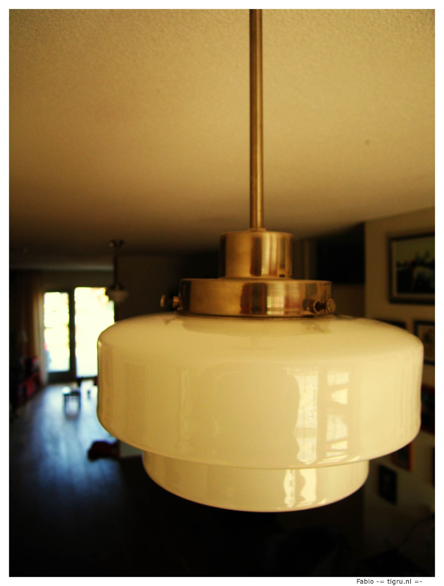 Art deco lamp from Gispen Factory The Netherlands